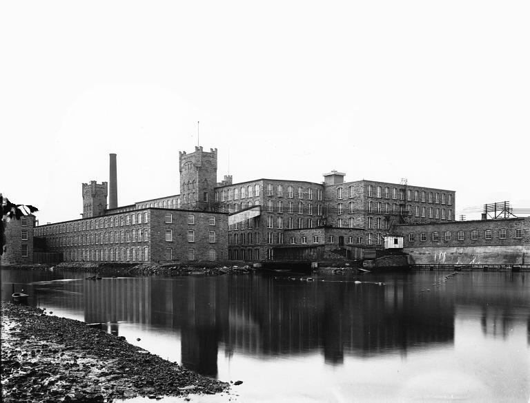 Photograph, Montreal Cotton Mills, Valleyfield, QC, about 1900, N. M. Hinshelwood, Silver salts on glass - Gelatin dry plate process, 16 x 21 cm